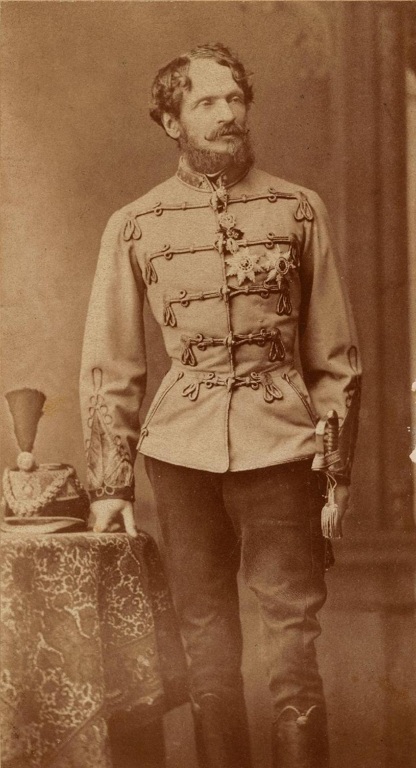 Gyula Andrássy (1823-1890)